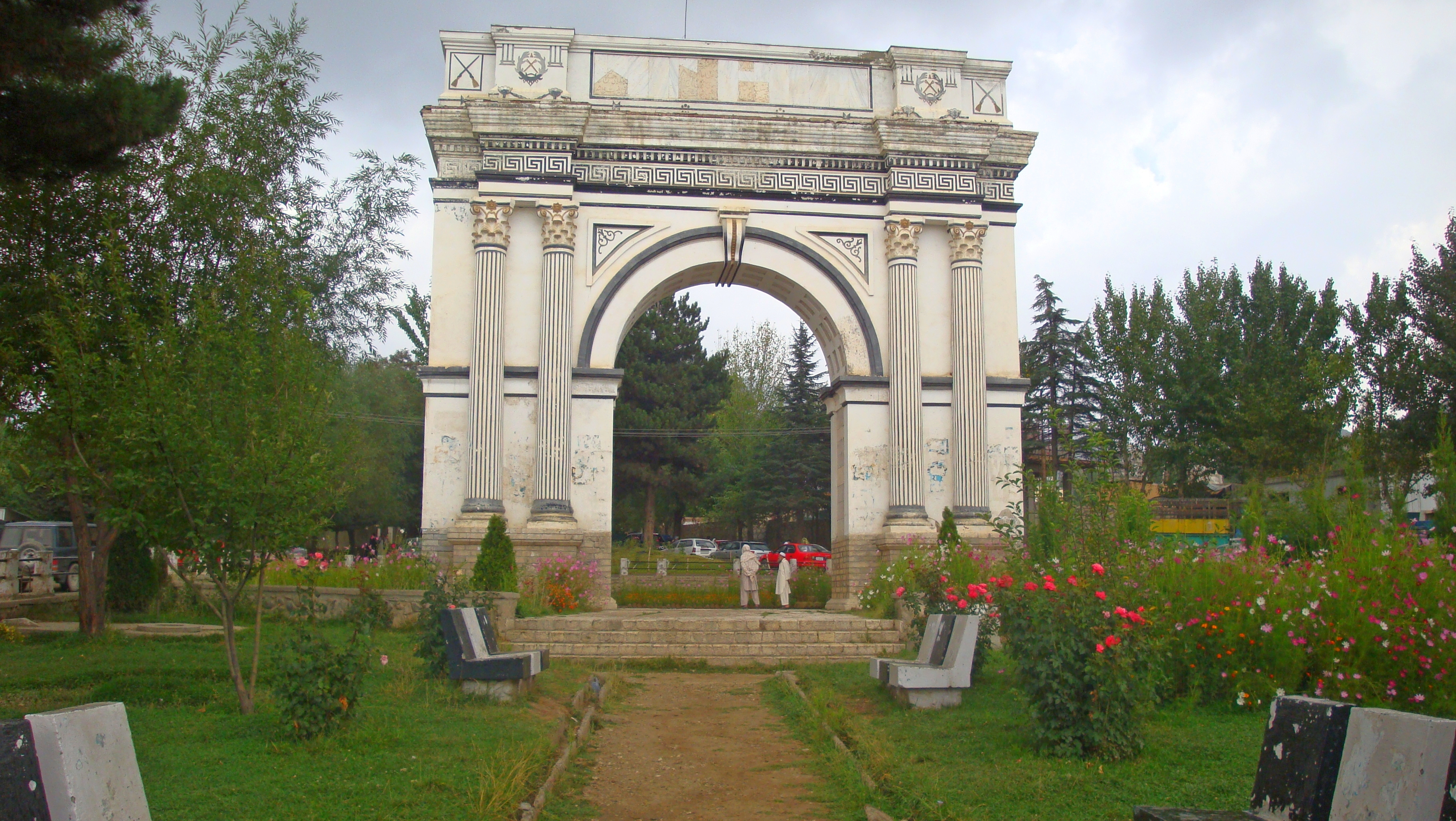 Arc de Triumph Paghman